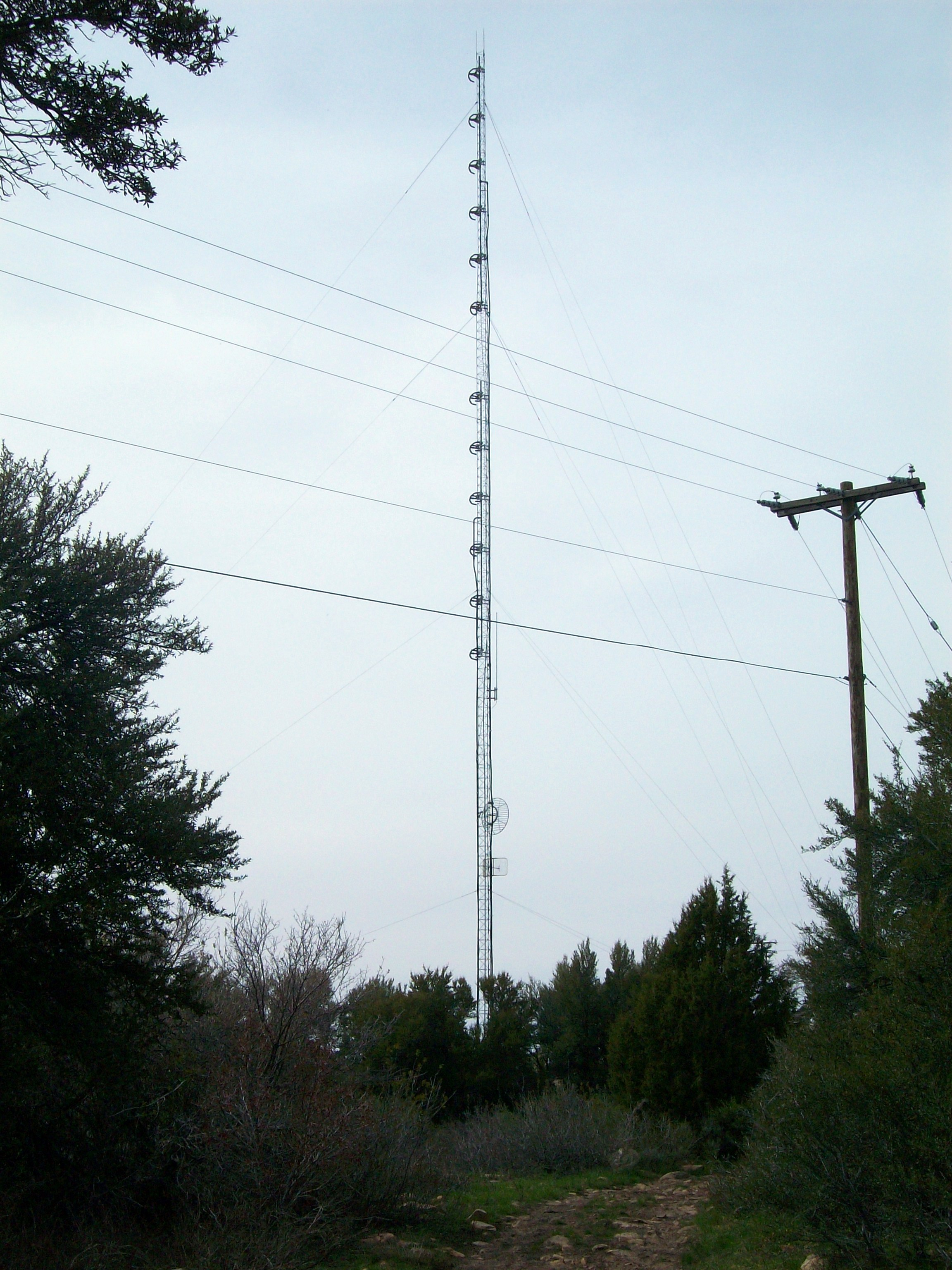 The radio tower formerly used for KKAT-FM 107.5 Country Legends, located atop Lake Mountain, Utah. Having moved north to Farnsworth Peak, this tower is now operated by LMTower, Inc.